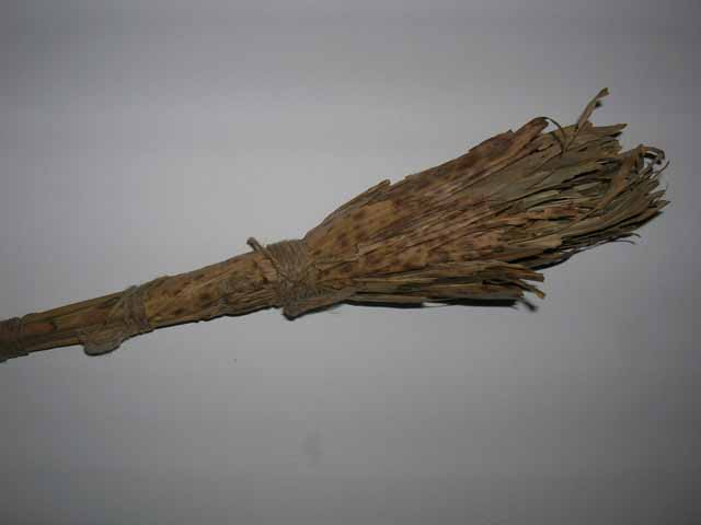 Photograph taken of a well used Chakapa from a Peruvian Shaman, by author